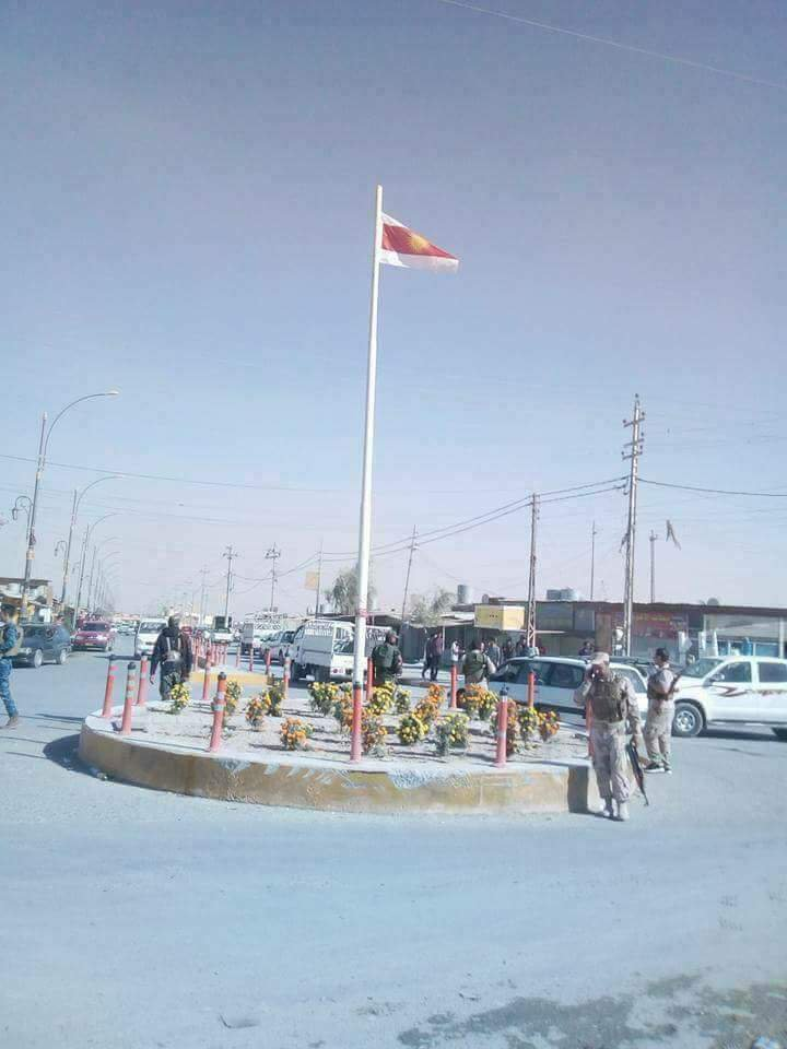 Sinjar, Iraq